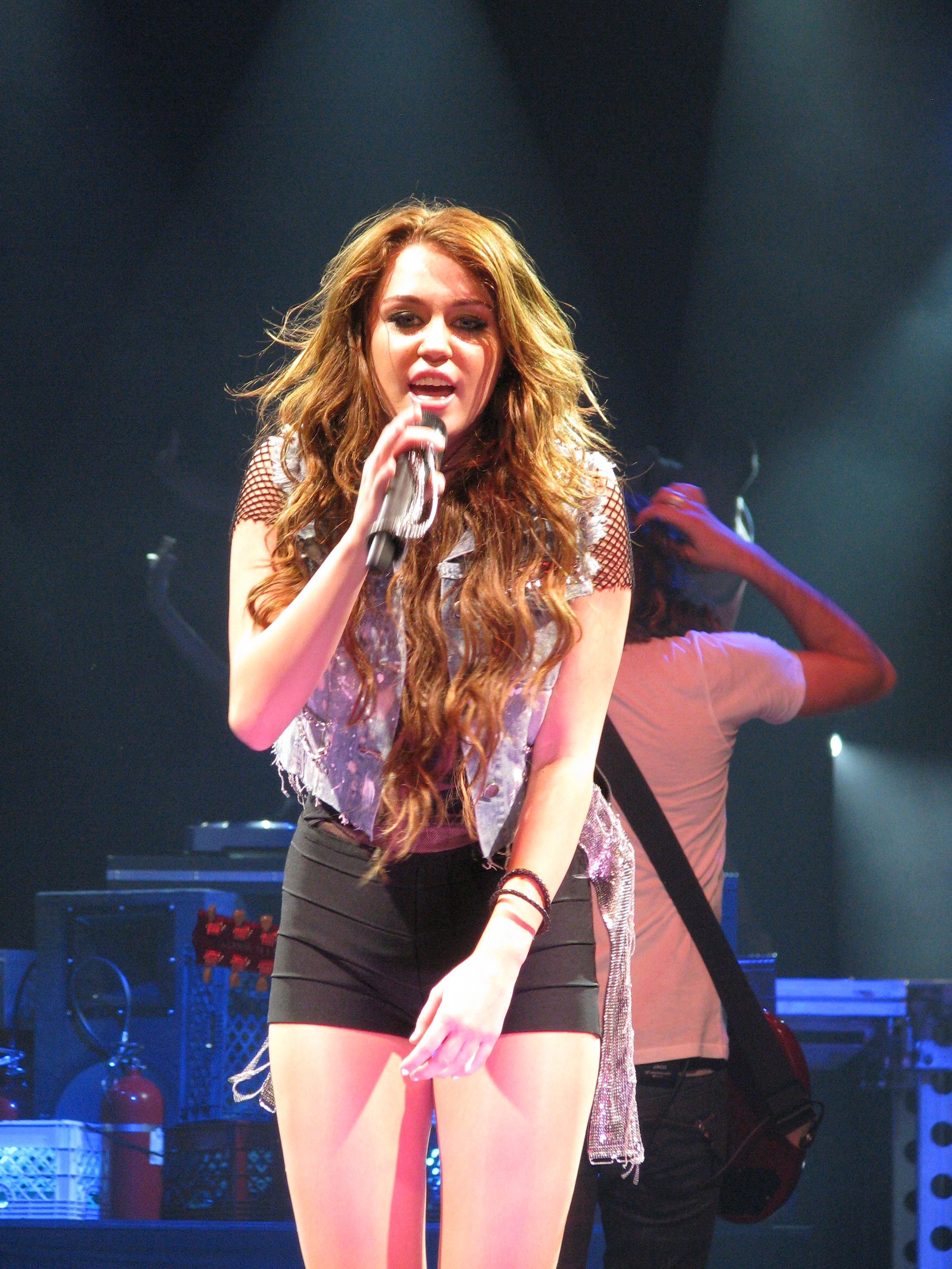 A teen singing.